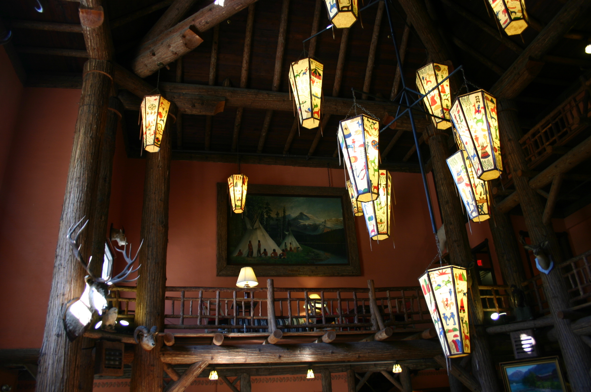 Ceiling lanterns in the lobby of Lake McDonald Lodge